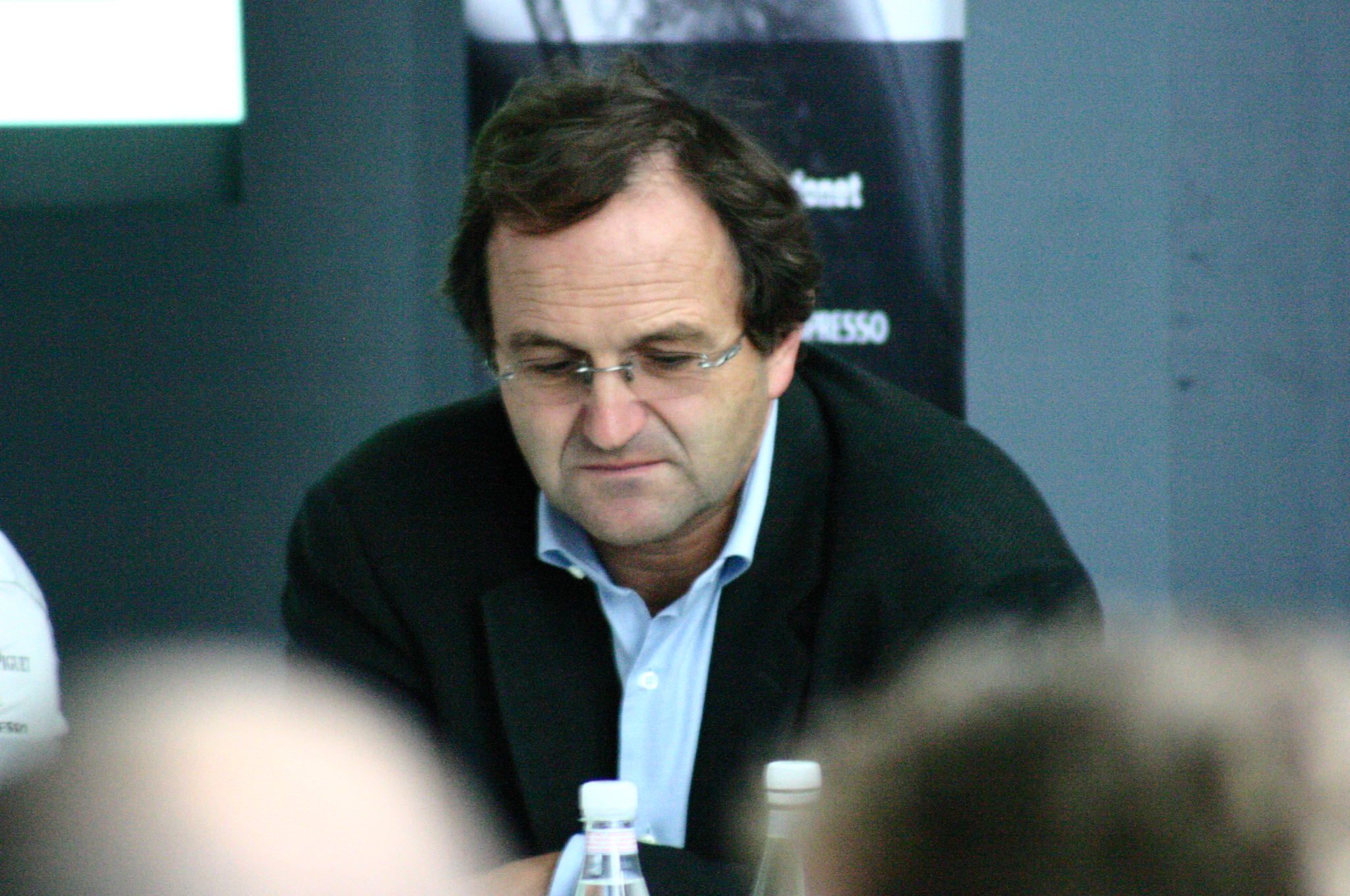 Alinghi on display at the EPFL, 30th of August 2006. Bertrand Cardis, manager of Decision SA, the firm that built the Alinghi boats